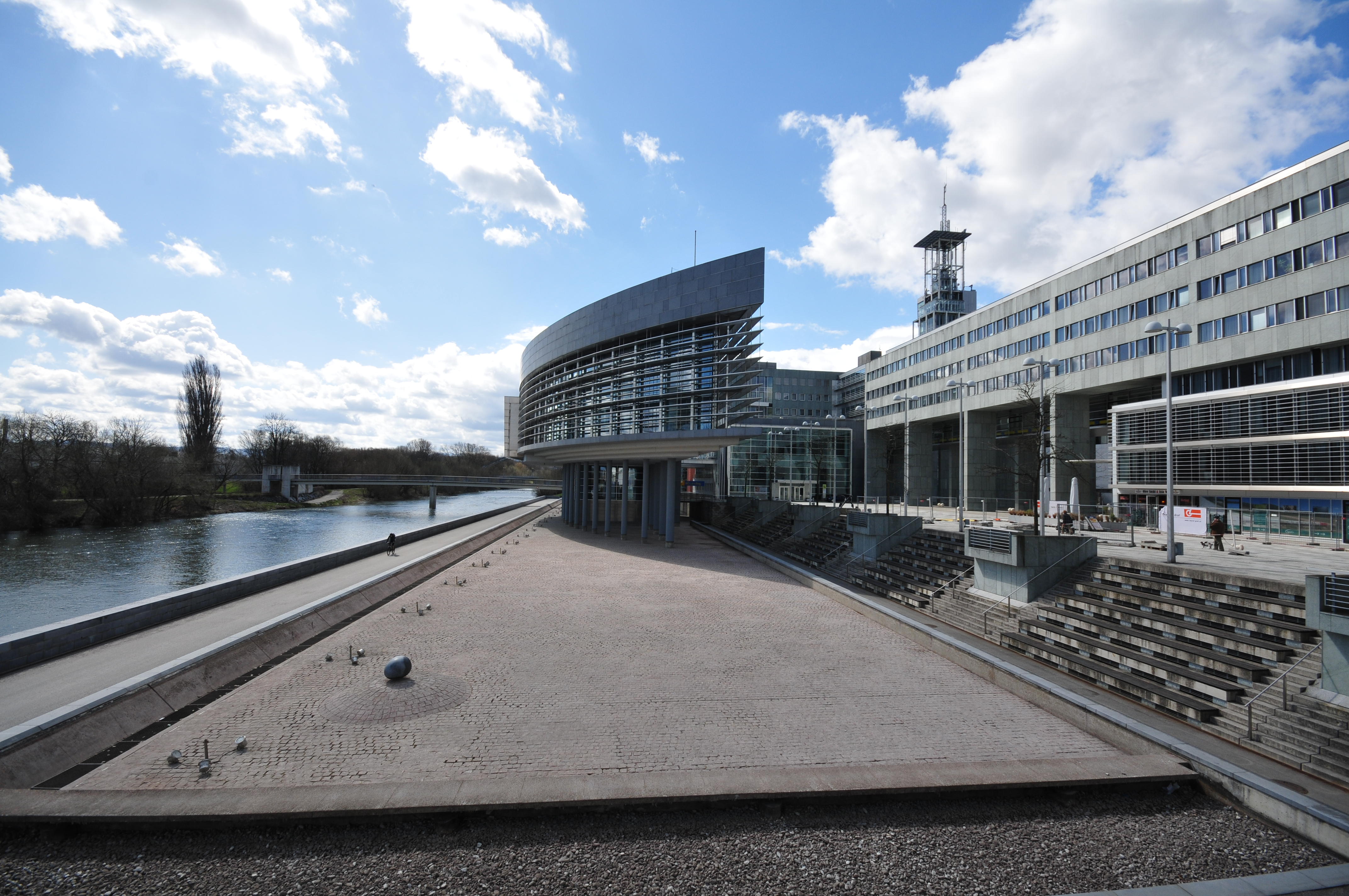 St. Pölten, Austria, Landhausviertel Fotowanderung St. Pölten 13. April 2013 in St. Pölten, Niederösterreich 50mm • Allgemeines • Bahnhof • Domplatz • Fahrräder • Landhausviertel • Rathausplatz